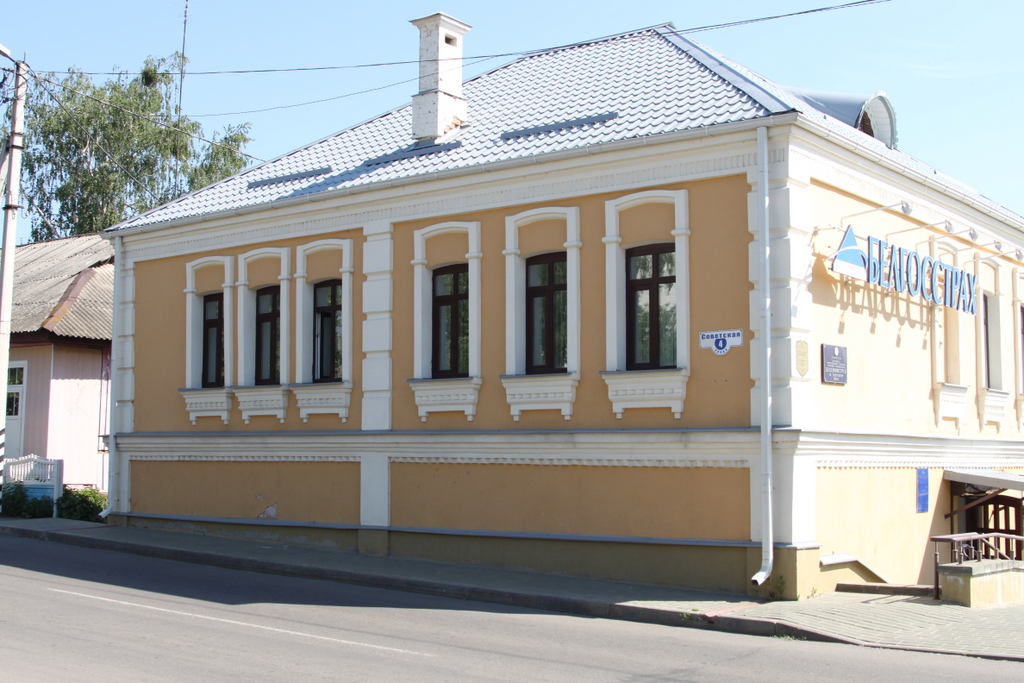 Беларуская (тарашкевіца): Былы купецкі будынак. г. Лоеў This is a photo of Belarusian heritage monument. Reference number: 313Г000466 ( WLM)